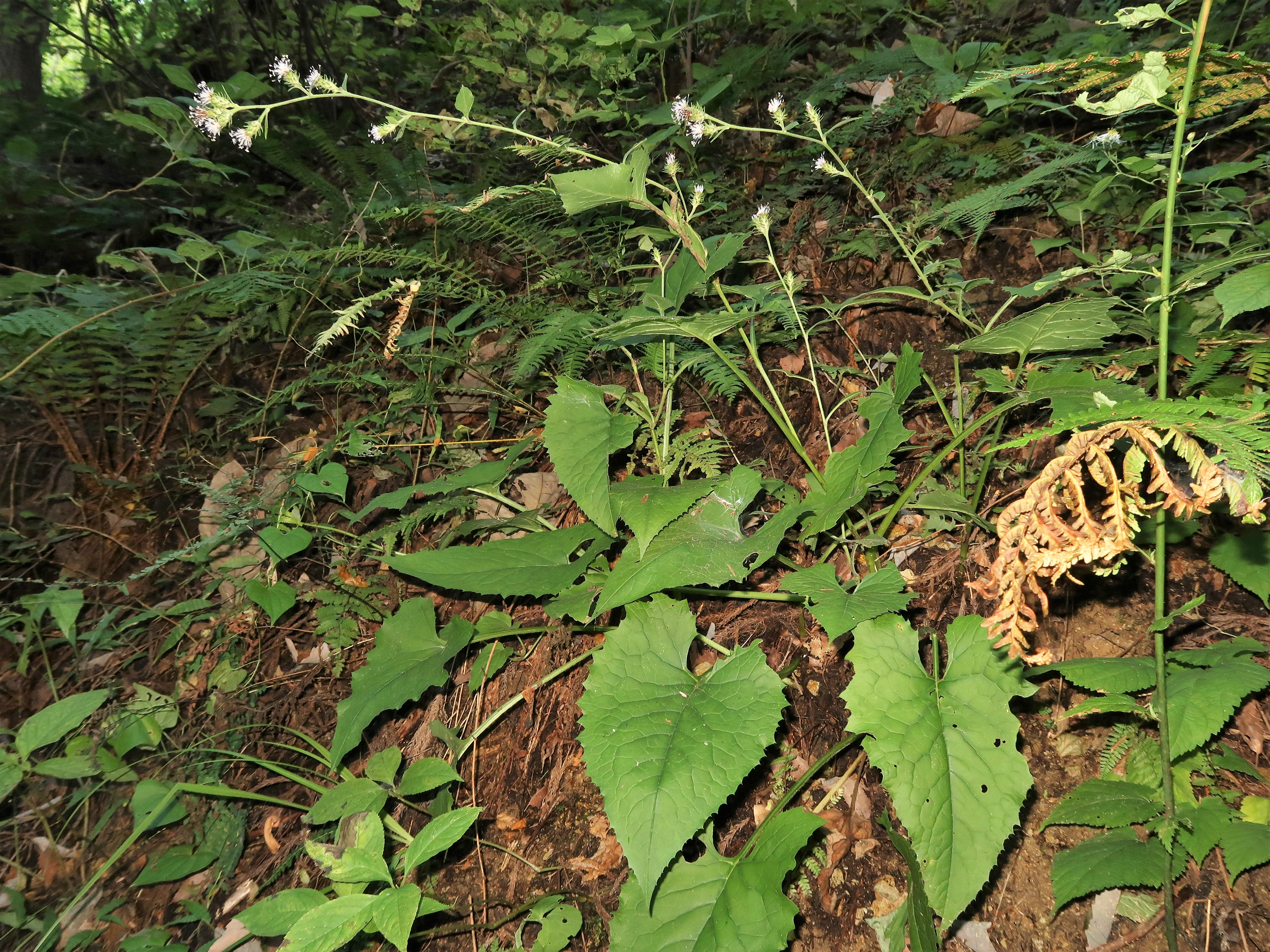 Saussurea yamagataensis, Yamagata city, Yamagata pref., Japan